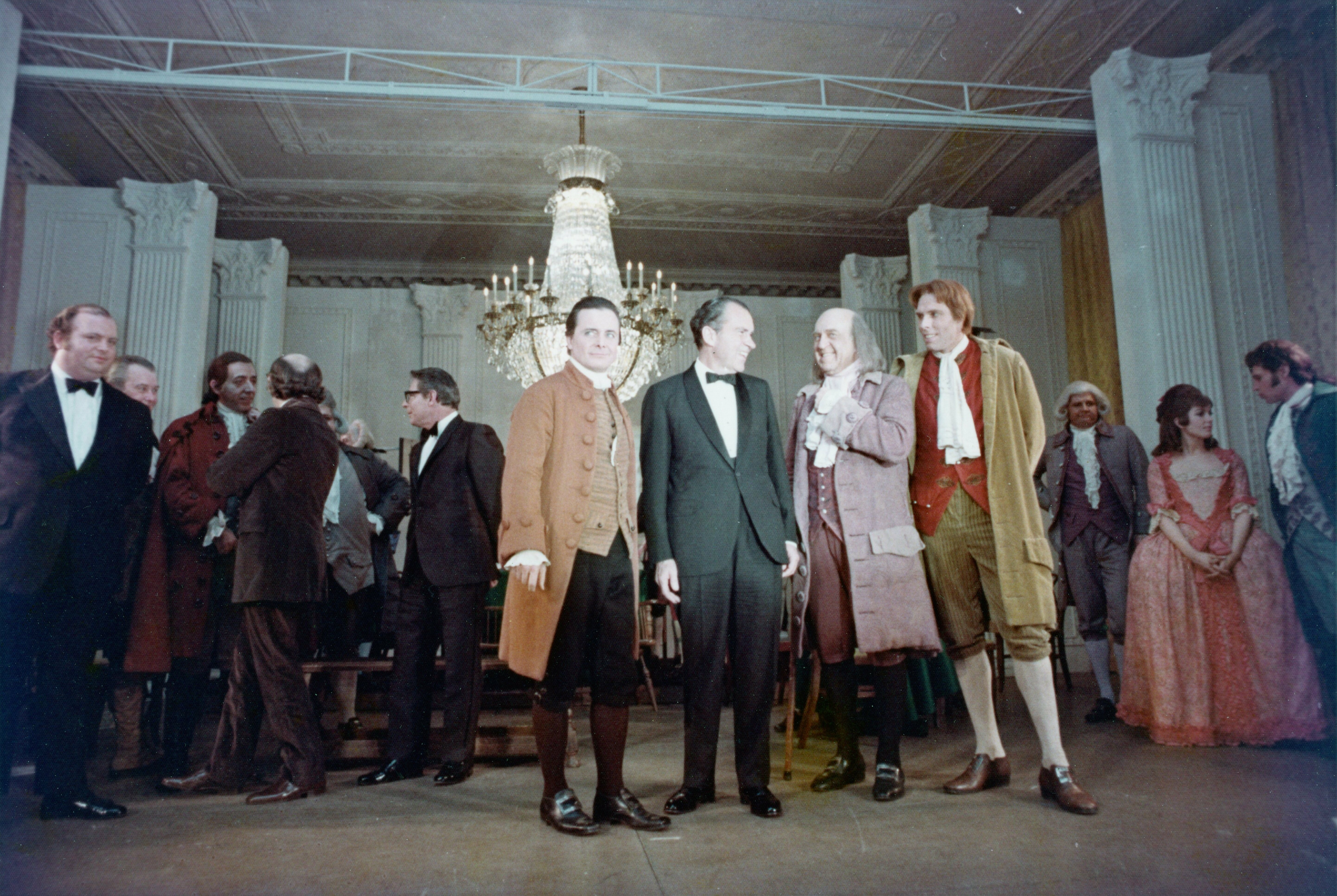 President Richard Nixon with the cast of the musical 1776 after a performance in the East Room of the White House. WHPO C3006-34